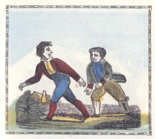 PETER PIPER'S PRACTICAL PRINCIPLES OF PLAIN AND PERFECT PRONUNCIATION. PHILADELPHIA: Willard Johnson, No. 141, South Street 1836. Illustration for : "W w Walter Waddle Walter Waddle won a Walking Wager: Did Walter Waddle win a Walking Wager? If Walter Waddle won a Walking Wager, Where's the Walking Wager Walter Waddle won?"